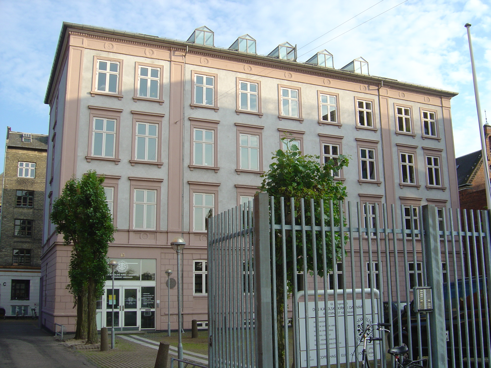 Den Katolske Kirke i Danmark - Administration offices in Copenhagen for the catholic church in Denmark. Seen from the northern side on Gammel Kongevej.